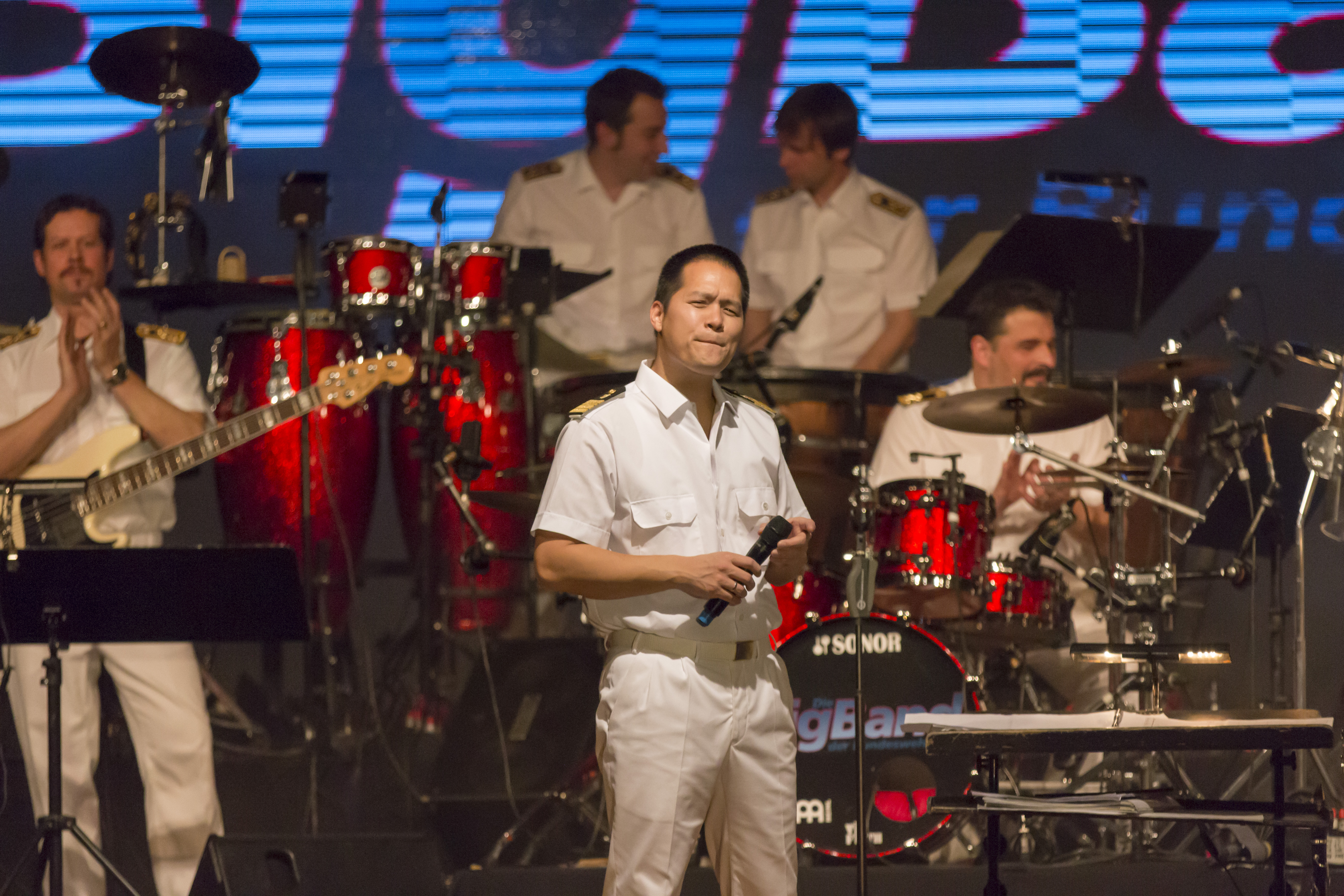 Lieutenant colonel Timor Oliver Chadik before show final